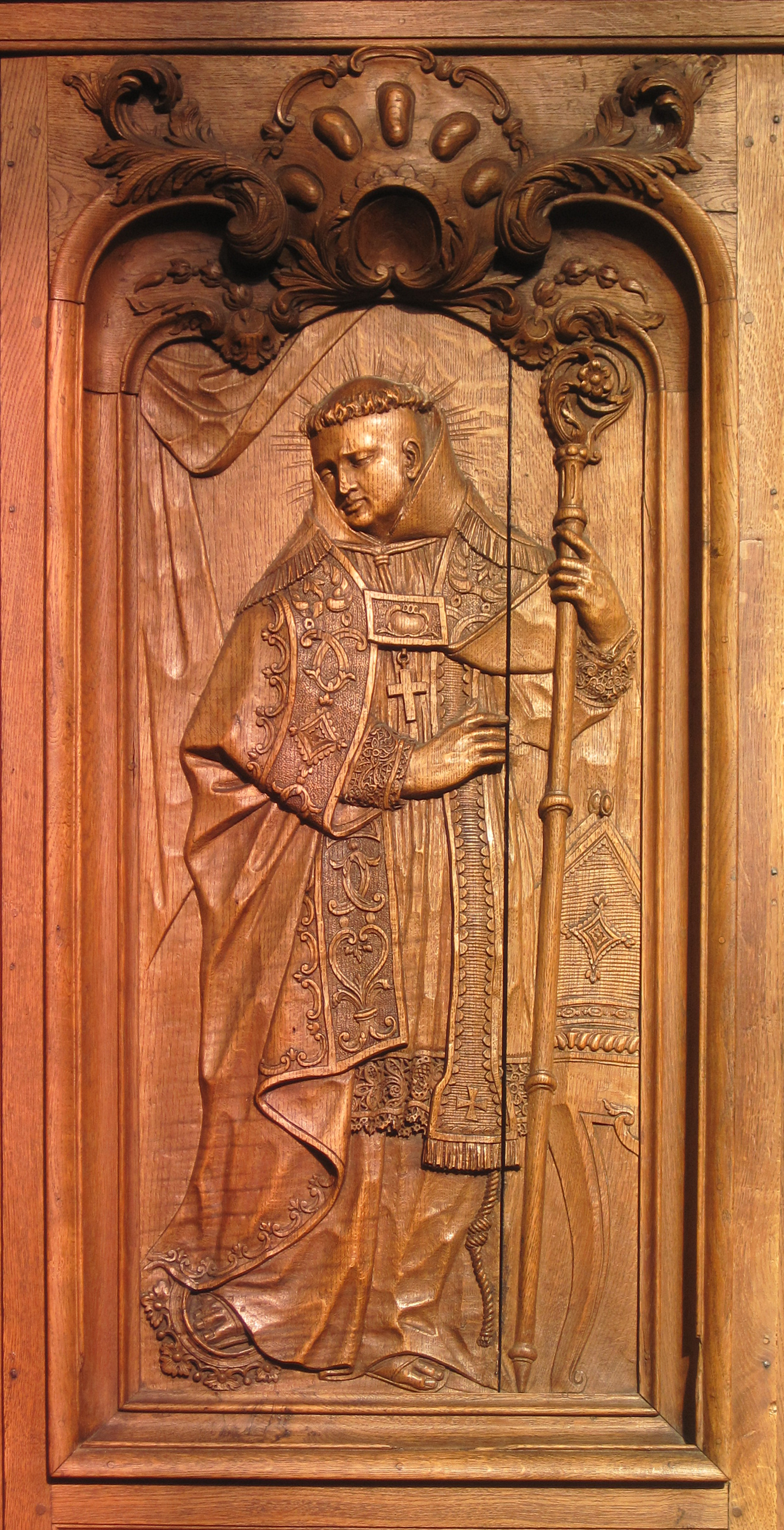 Carved oak panel in the Louis XIV style adorning the stalls of the Saint-Hilaire church in Givet (Ardennes department, France). Walon: Panau d'tchin.ne di stîle Louis XIV gârnichant lès stales di l'èglîje Sint-Ilaîre a Djivet (dèpartèmint dès Ârdènes, France).